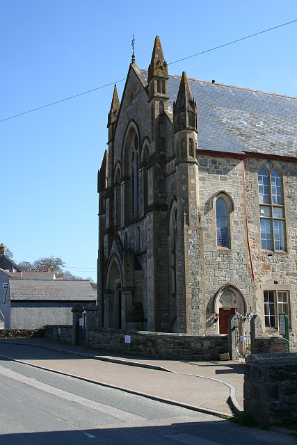 Front of the former Methodist church at Perranwell, Cornwall, seen from the west